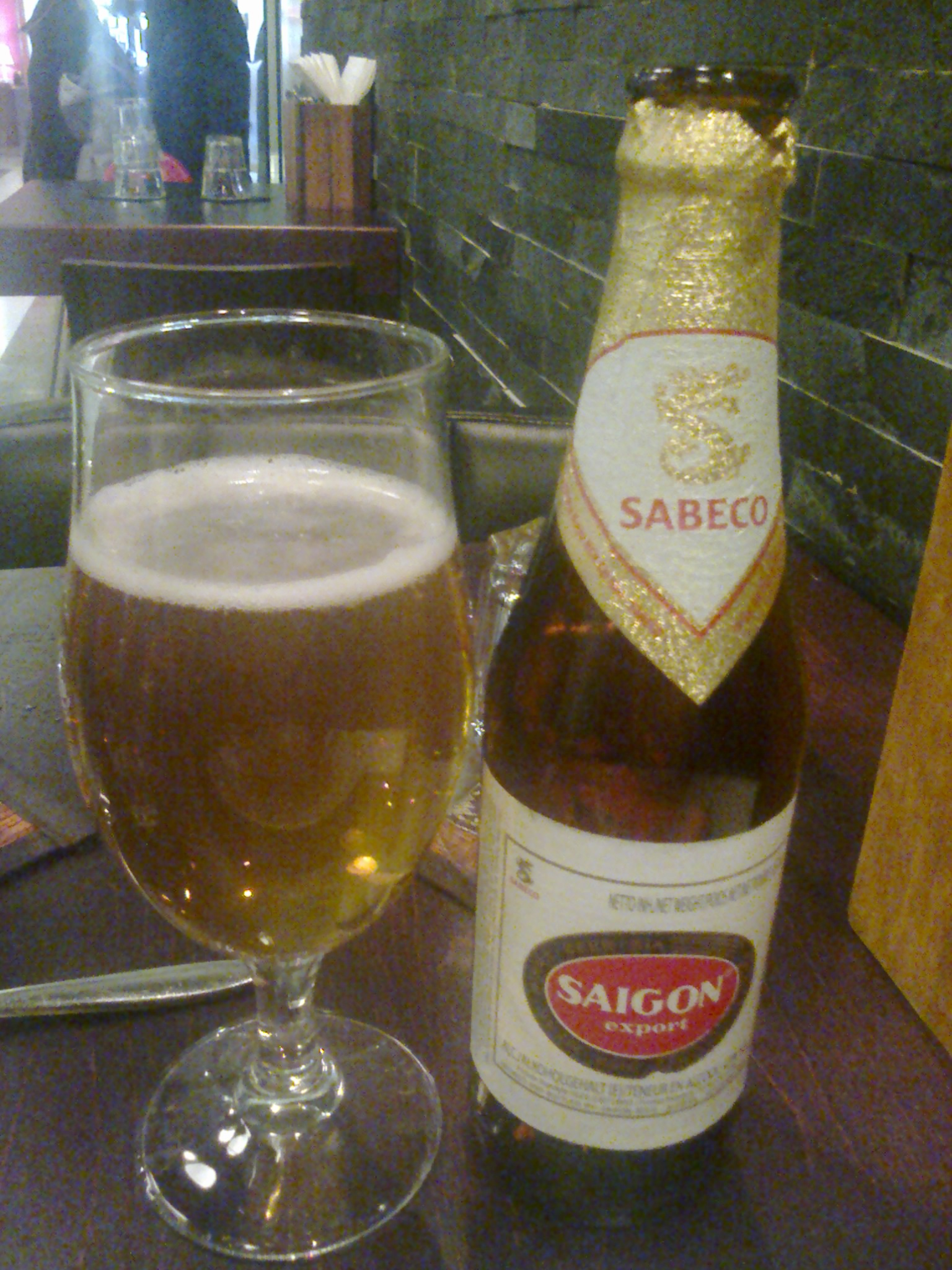 Saigon Beer for export, as seen in Helsinki, Finland.